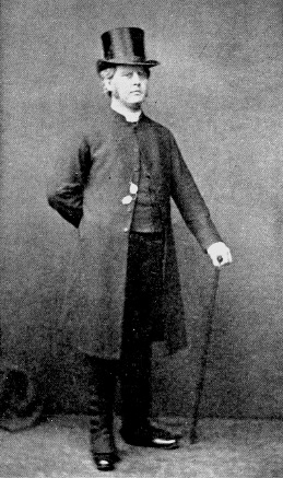 Photo of Rutland Barrington as Dr. Daly in The Sorceror from his book.